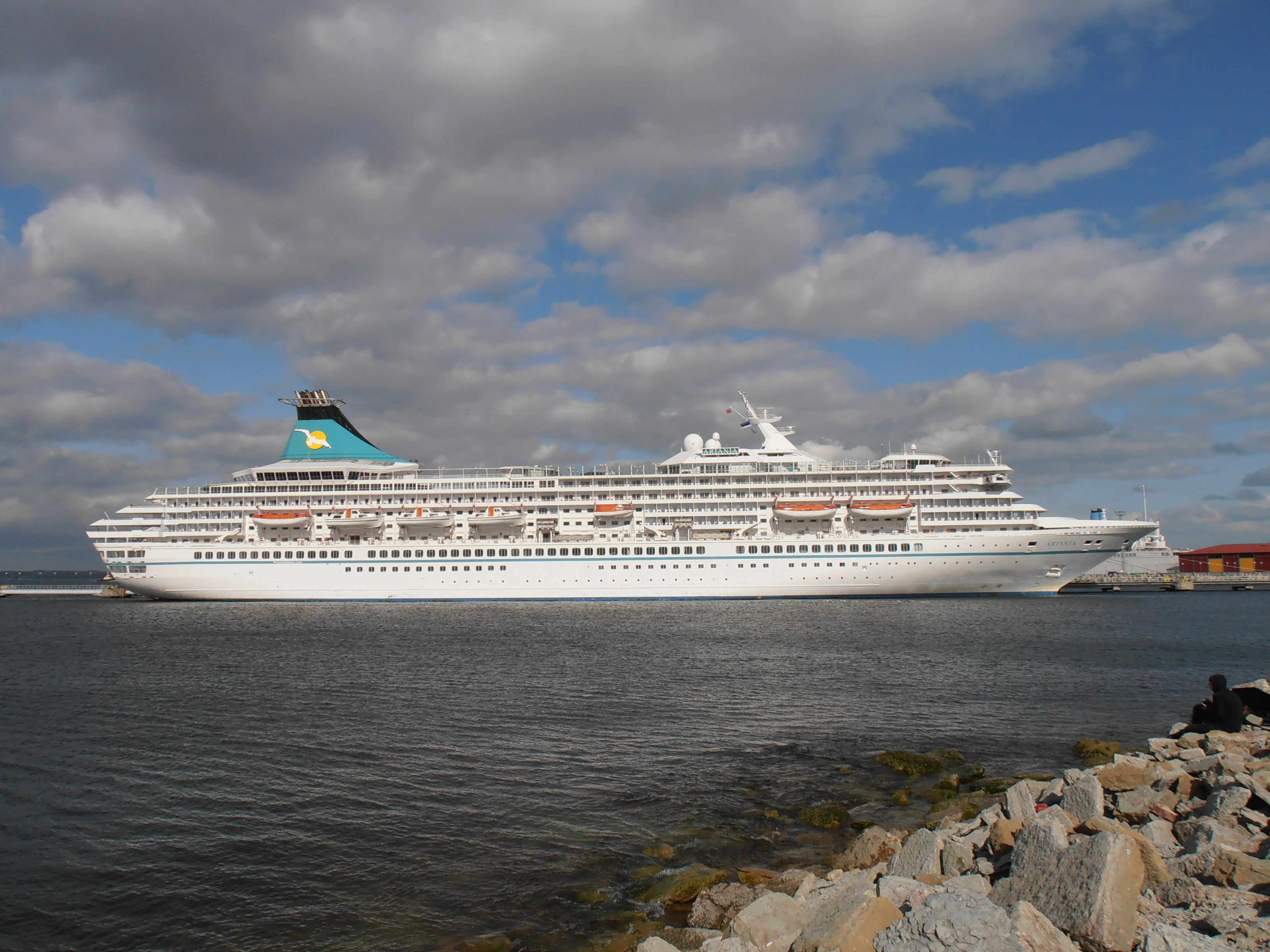 Artania in Tallinn 18 May 2012